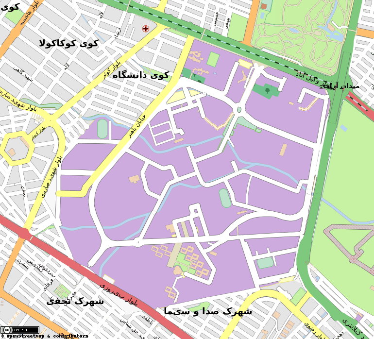 Map of area surrounding Ferdowsi University of Mashhad with Persian labels